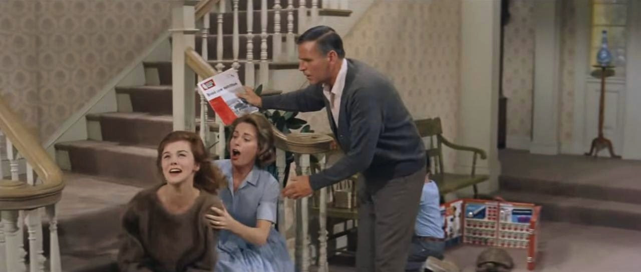 L. to R. : Ann-Margret, Mary LaRoche & Paul Lynde in Bye Bye Birdie - trailer (cropped screenshot)